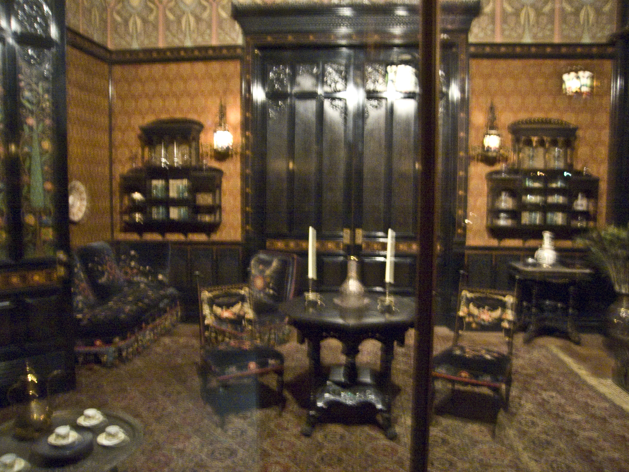 Moorish Smoking Room, The John D. Rockefeller House. Brooklyn Museum, 46.43.